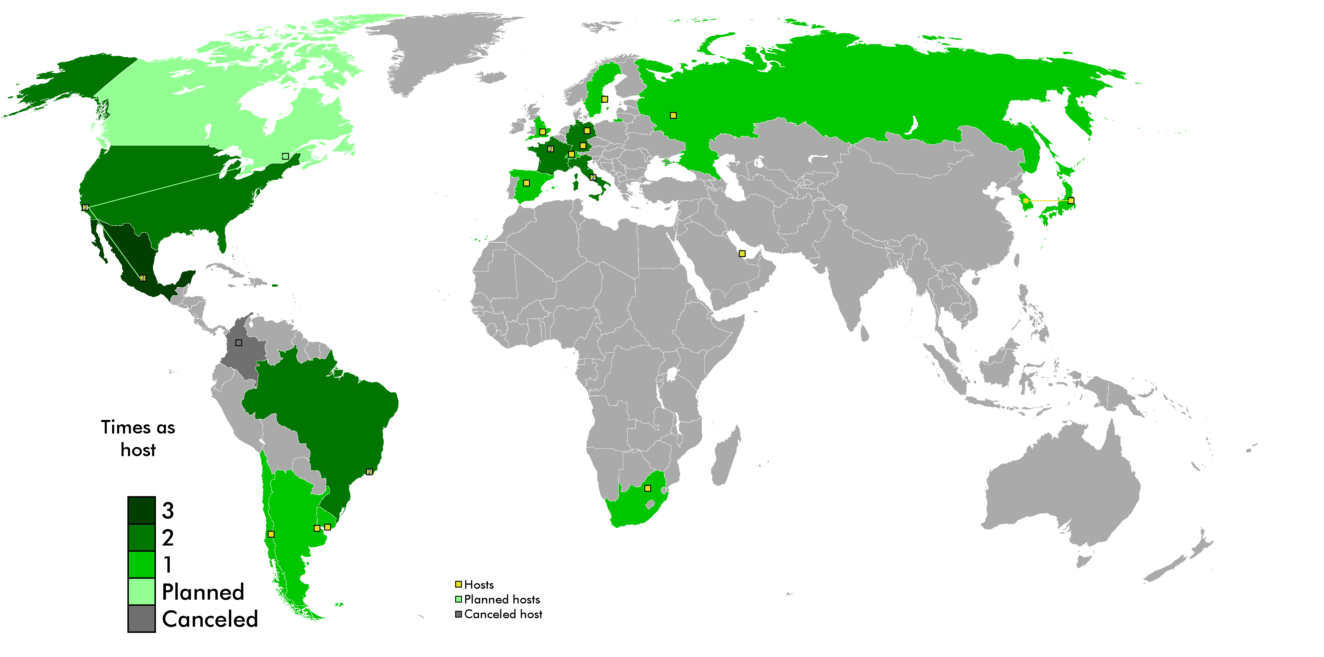 Green means that the country was the host of the FIFA world cup once. Dark green means twice. Darker green means three times. Light green means planned (remember that the 3rd time of Mexico and 2nd time of USA are just planned for 2026). And dark grey means canceled. Some city locations may be wrong and Crimea is not recognized as part of Russia by the international community. British